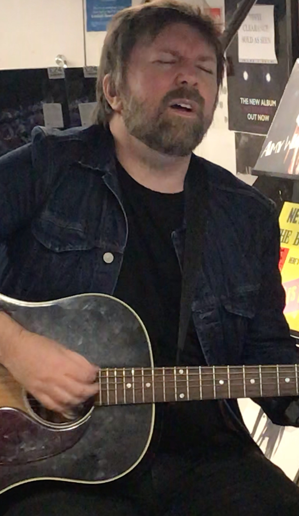 Paul Draper performing live in 2019.